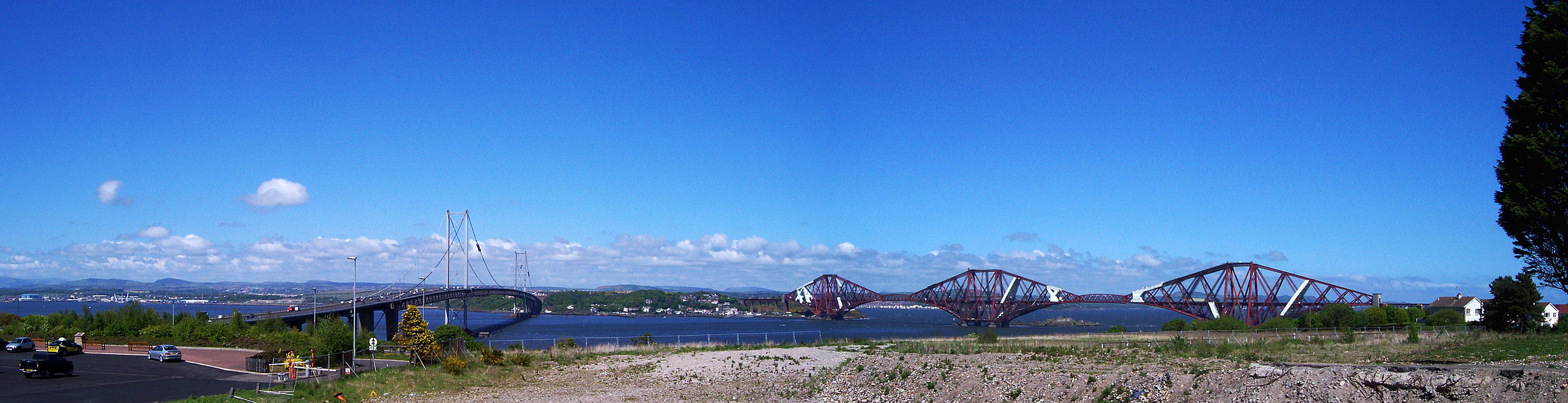 A photograph of the Forth bridges from Dalmeny. Both the suspension bridge, opened in 1964 and carrying the A90, and the impressive cantilever rail bridge of the late Victorian period are shown. Note the bridge control centre in the lower left hand portion of the image.